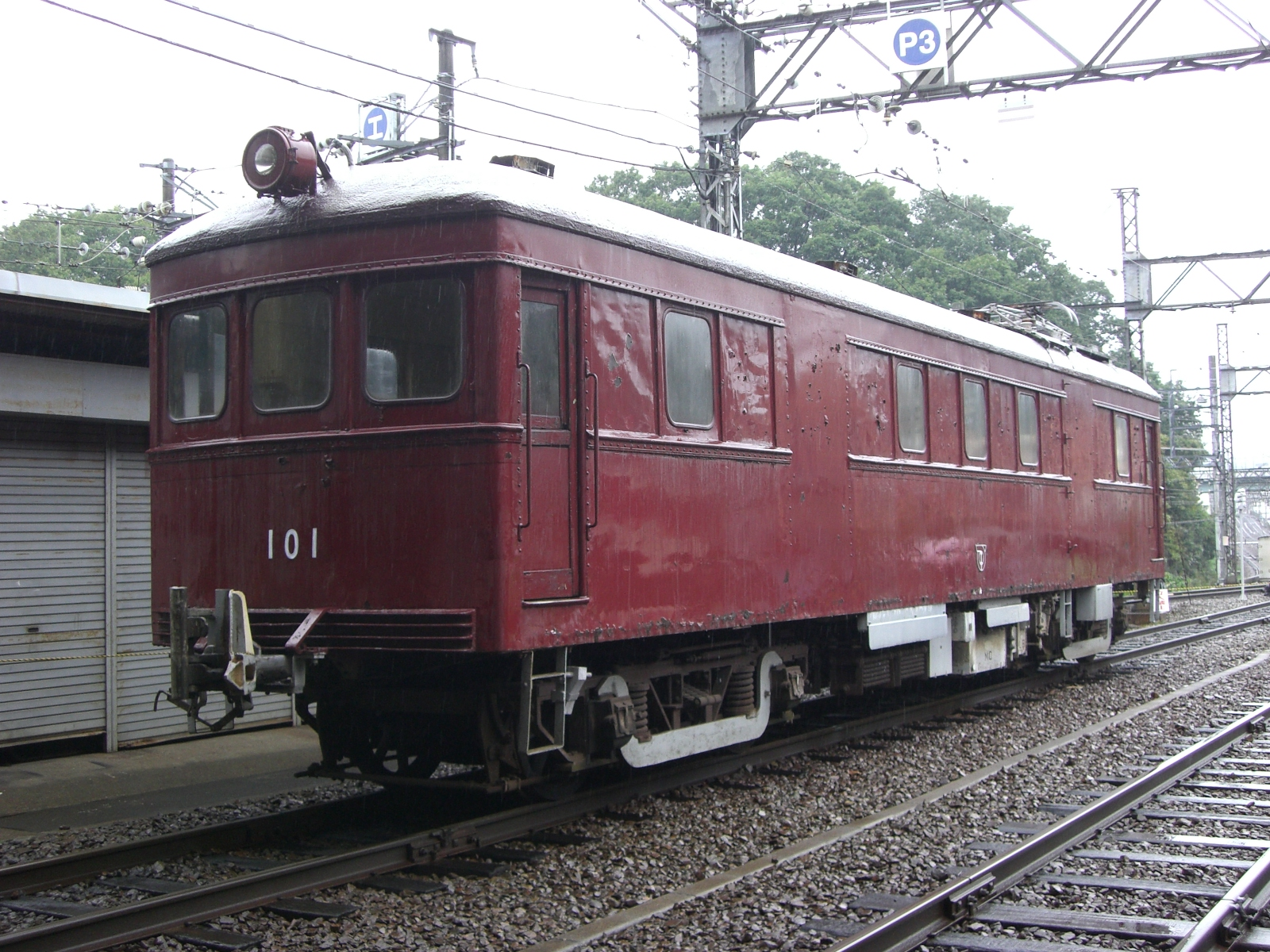 Kobe Electric Railway De 101 shunter at Suzurandai Depot